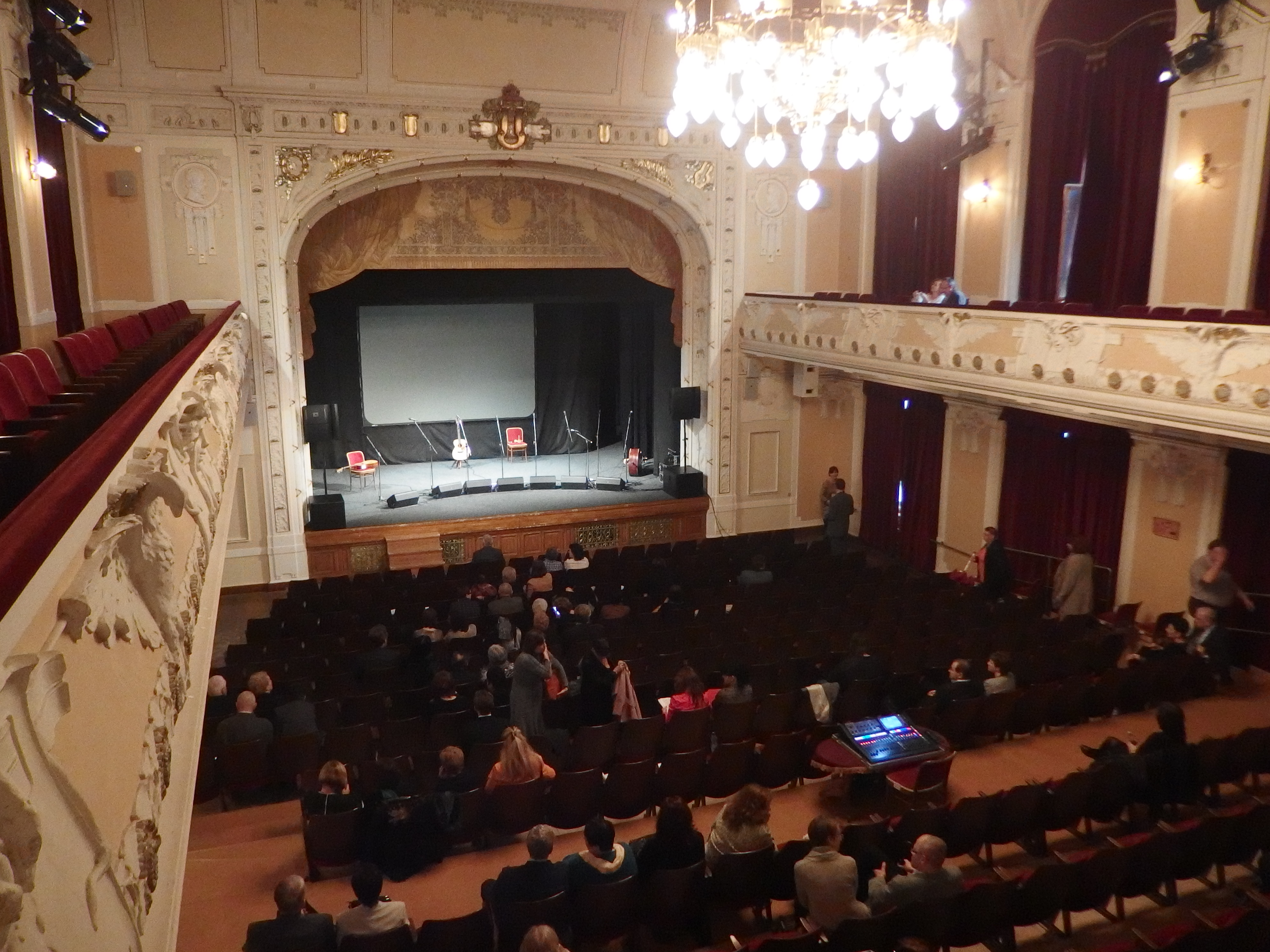 Litomyšl, Svitavy District, Czech Republic. Smetana-house (theater).